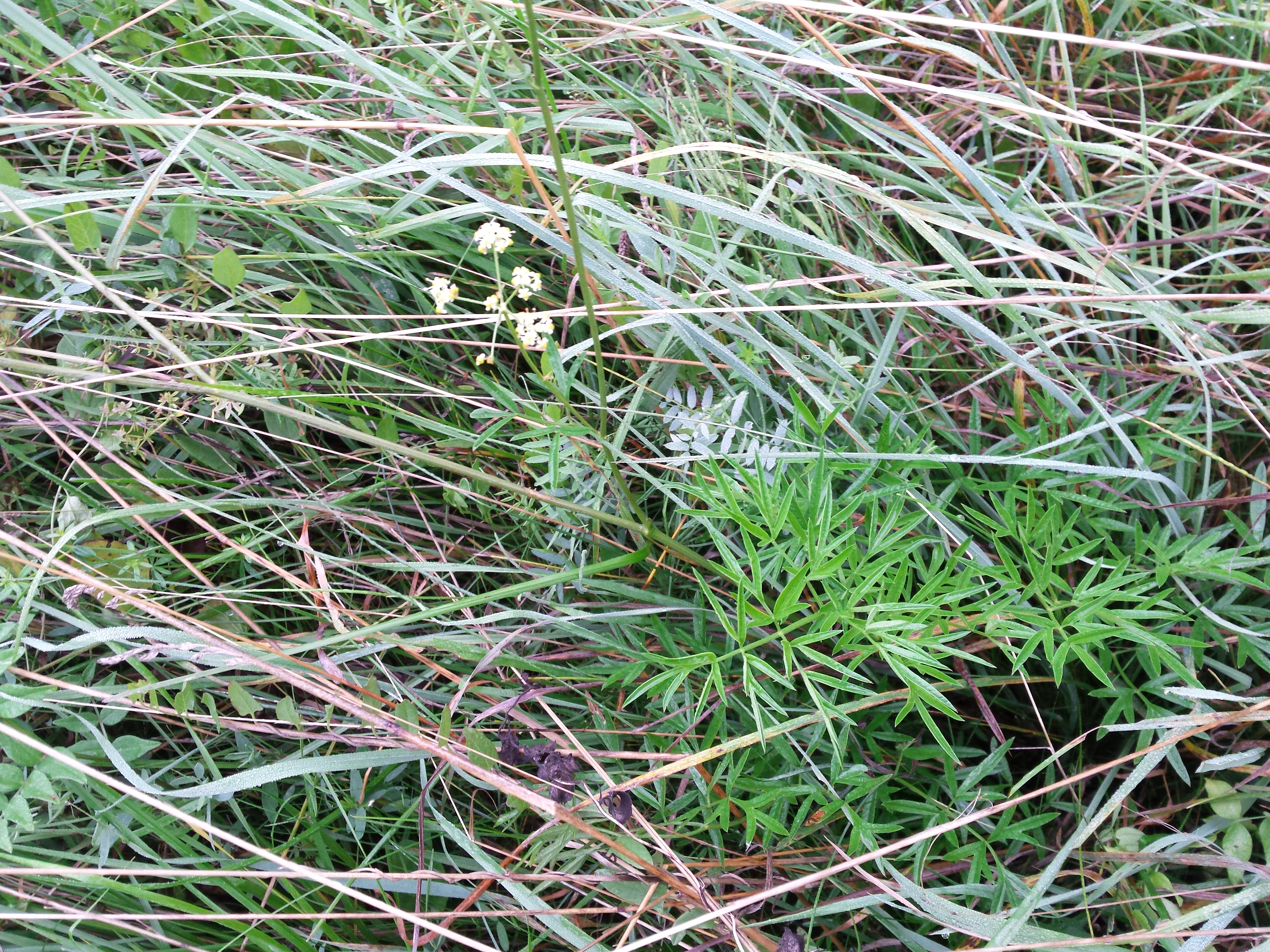 caraway milk parsley